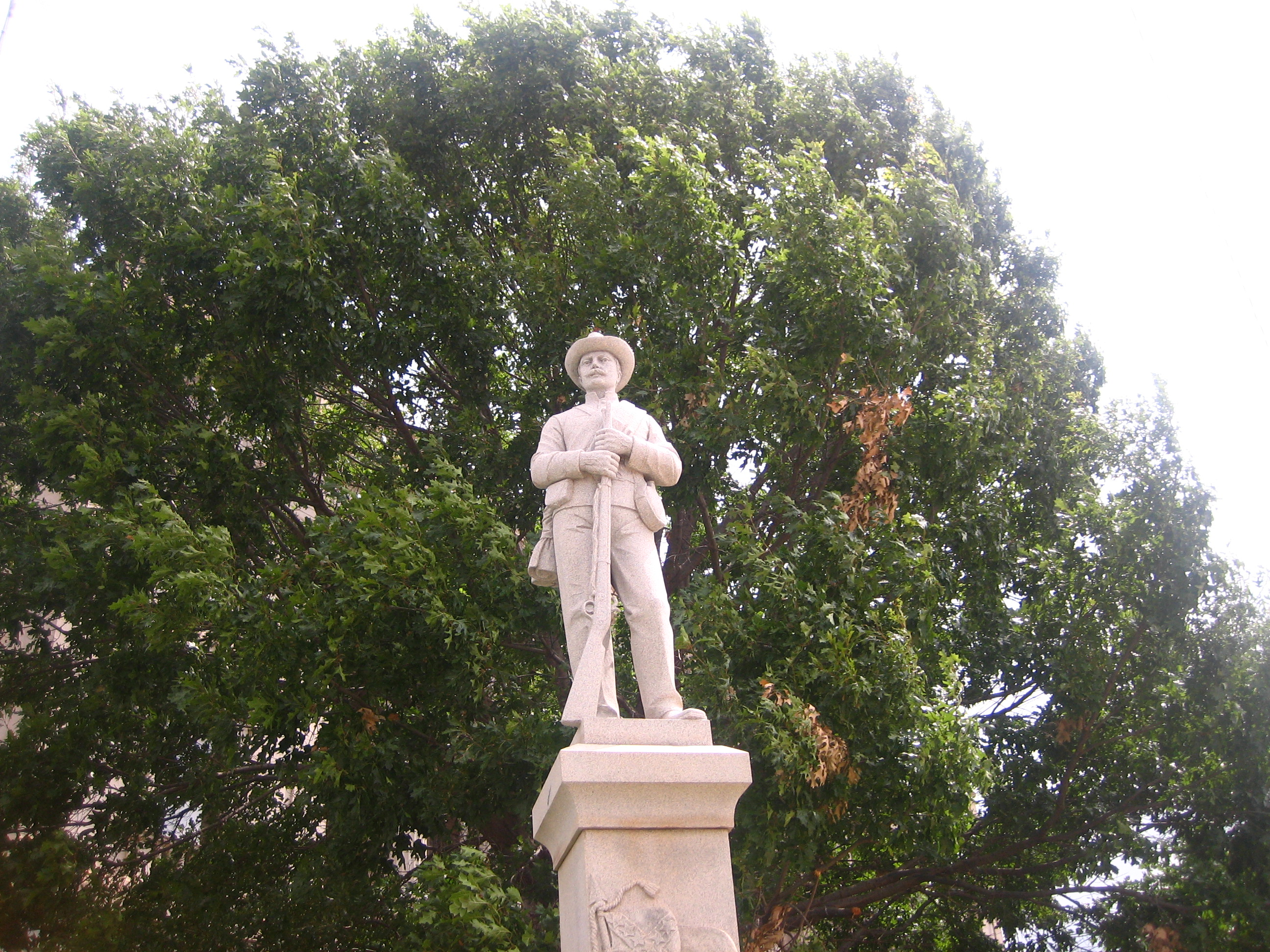 Confederate States of America war memorial in Vernon, erected in 1916. I took photo in July 2008.Billy Hathorn (talk) 00:20, 5 July 2009 (UTC)